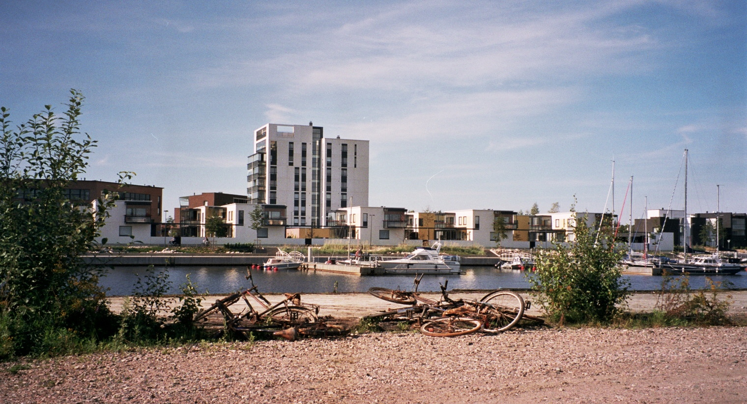 A view from the harbour of Toppila in Oulu, Finland. The rusty bicycles seen in the foreground of the photo have probably been lifted from the harbour basin.